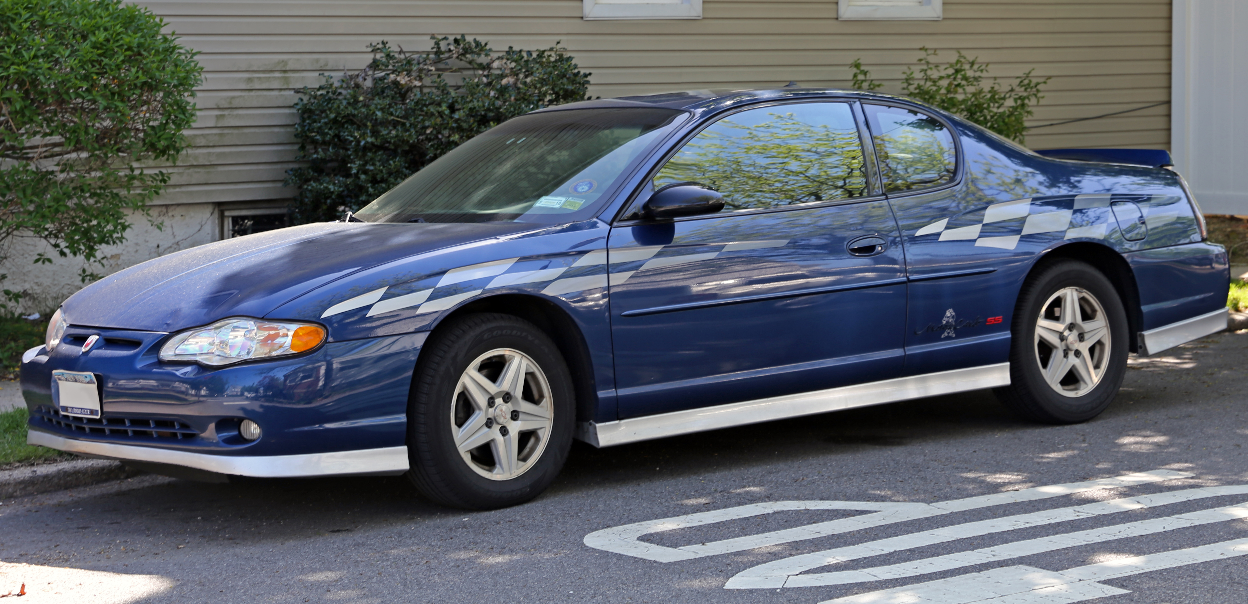 A 2003 Chevrolet Monte Carlo SS Pace Car edition. 1401 were built, all with this blue and silver paint job with checkered flag stripes. Bleeecchh.